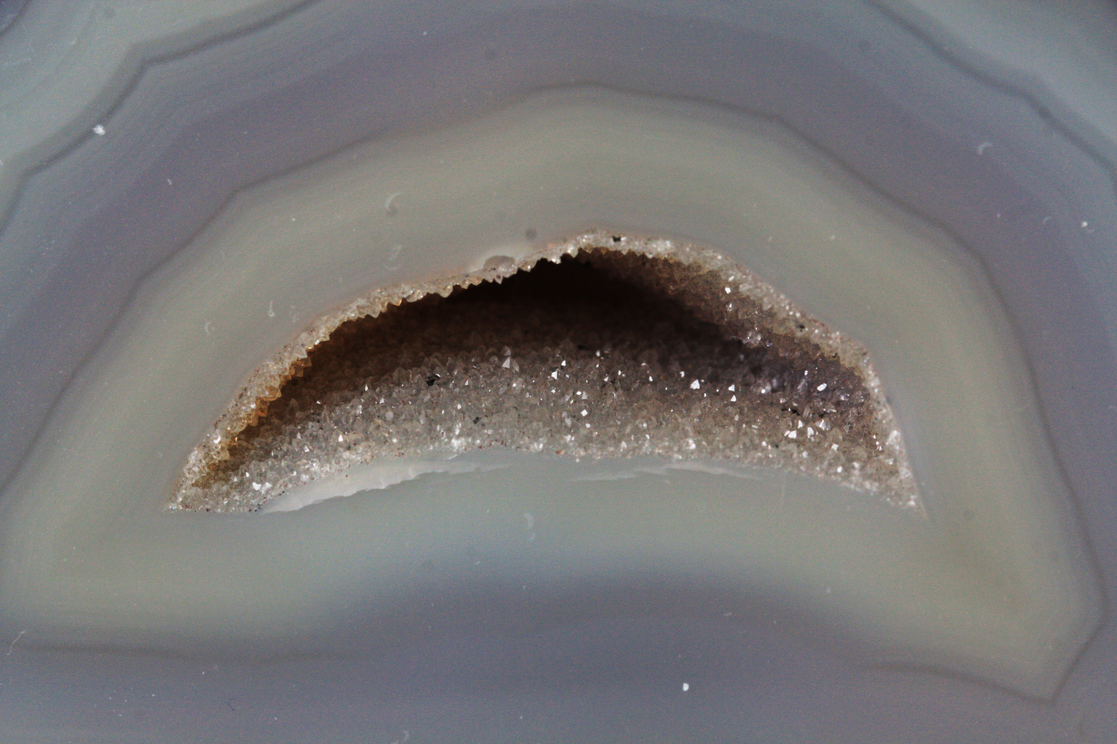 Hollow agate with drusy quartz in the cavity.